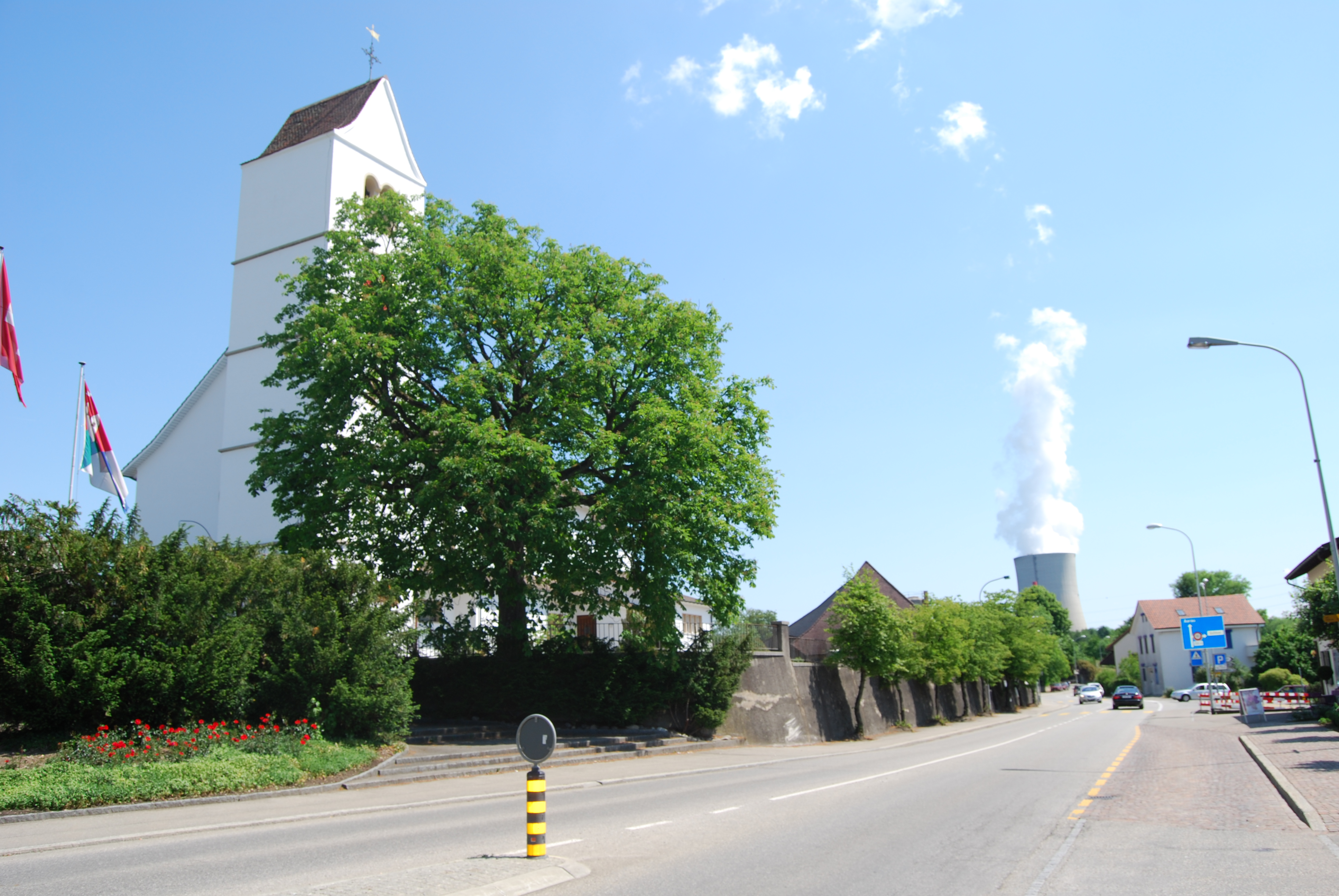 Church of Obergösgen and Gösgen nuclear power plant, canton of Solothurn, SwitzerlandEsperanto: Preĝejo de Obergösgen kaj nuklea centralo de Gösgen, Kantono Soloturno, Svislando